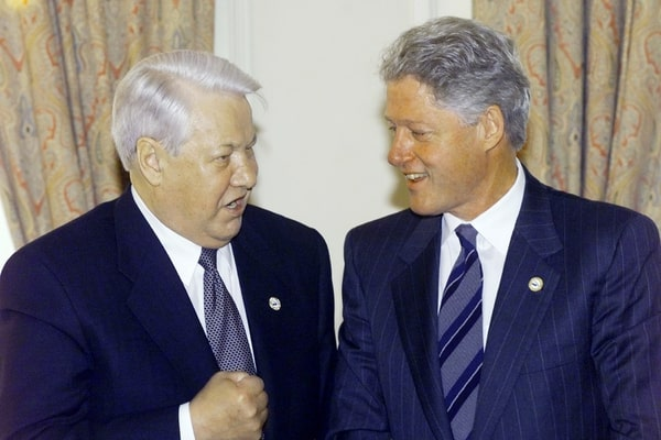 US President Bill Clinton and Russian President Boris Yeltsin after a private meeting at the Ciragan Palace in Istanbul.